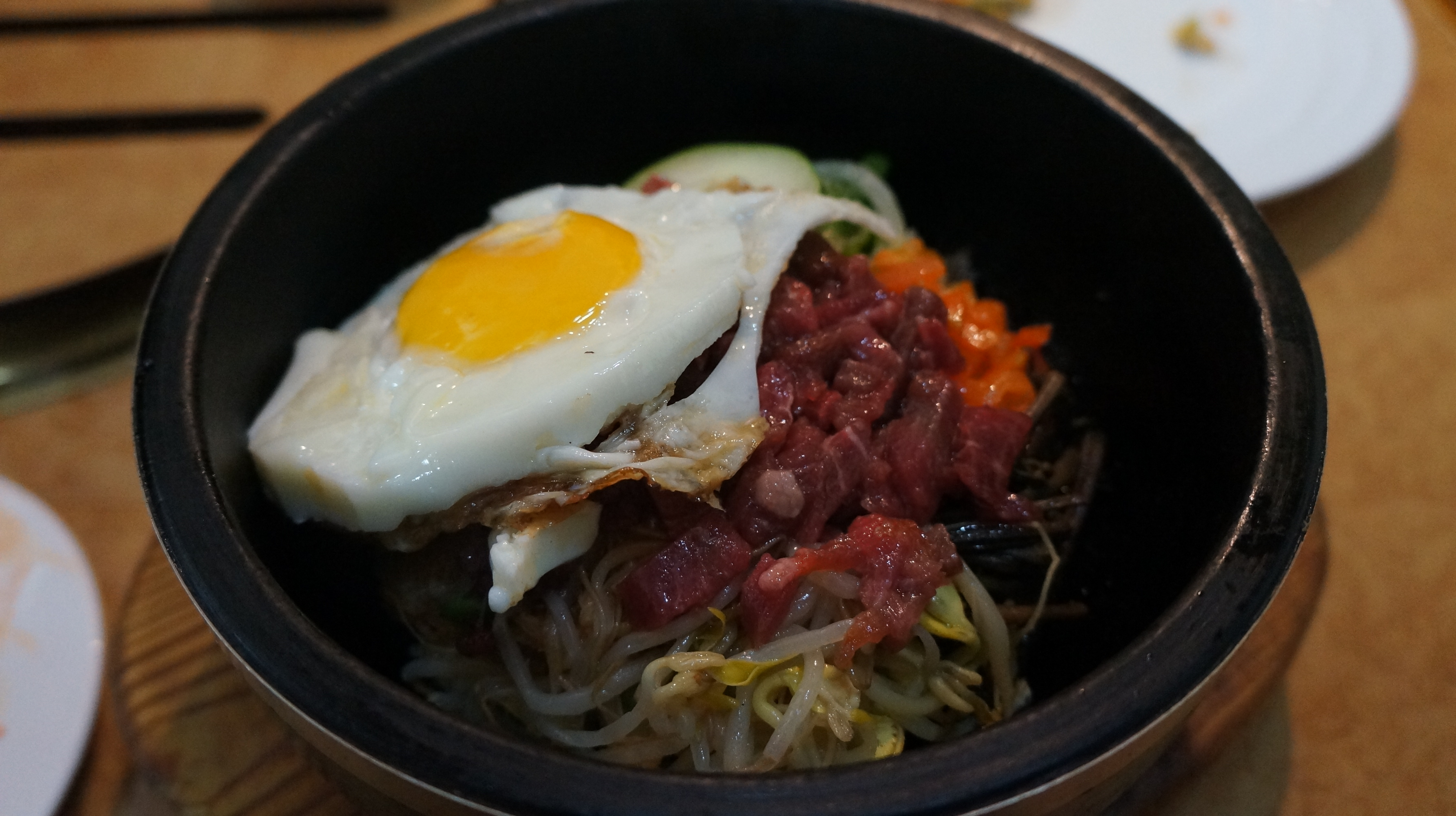 The Arirang BBQ restaurant in Pyongyang has quite possibly the best bibimbap in the city. Beef is served raw over mountain roots, vegetables and rice. When mixed in the sizzling hot stone pot, the beef is cooked to perfection.